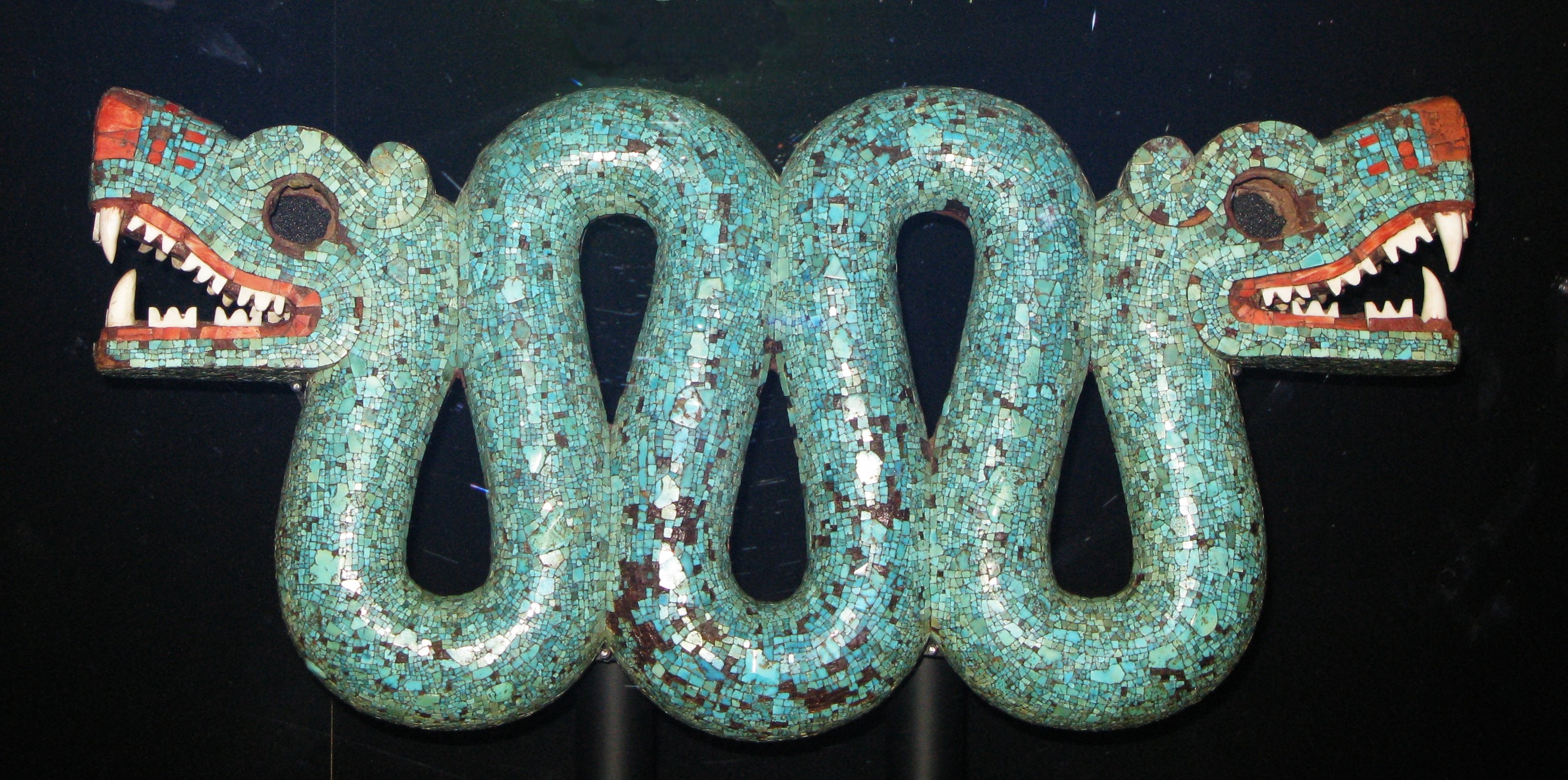 Photo of an aztec double headed serpent turquoise chest ornament